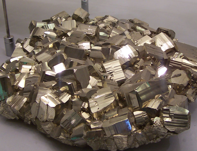 Pyrite or foolsgold